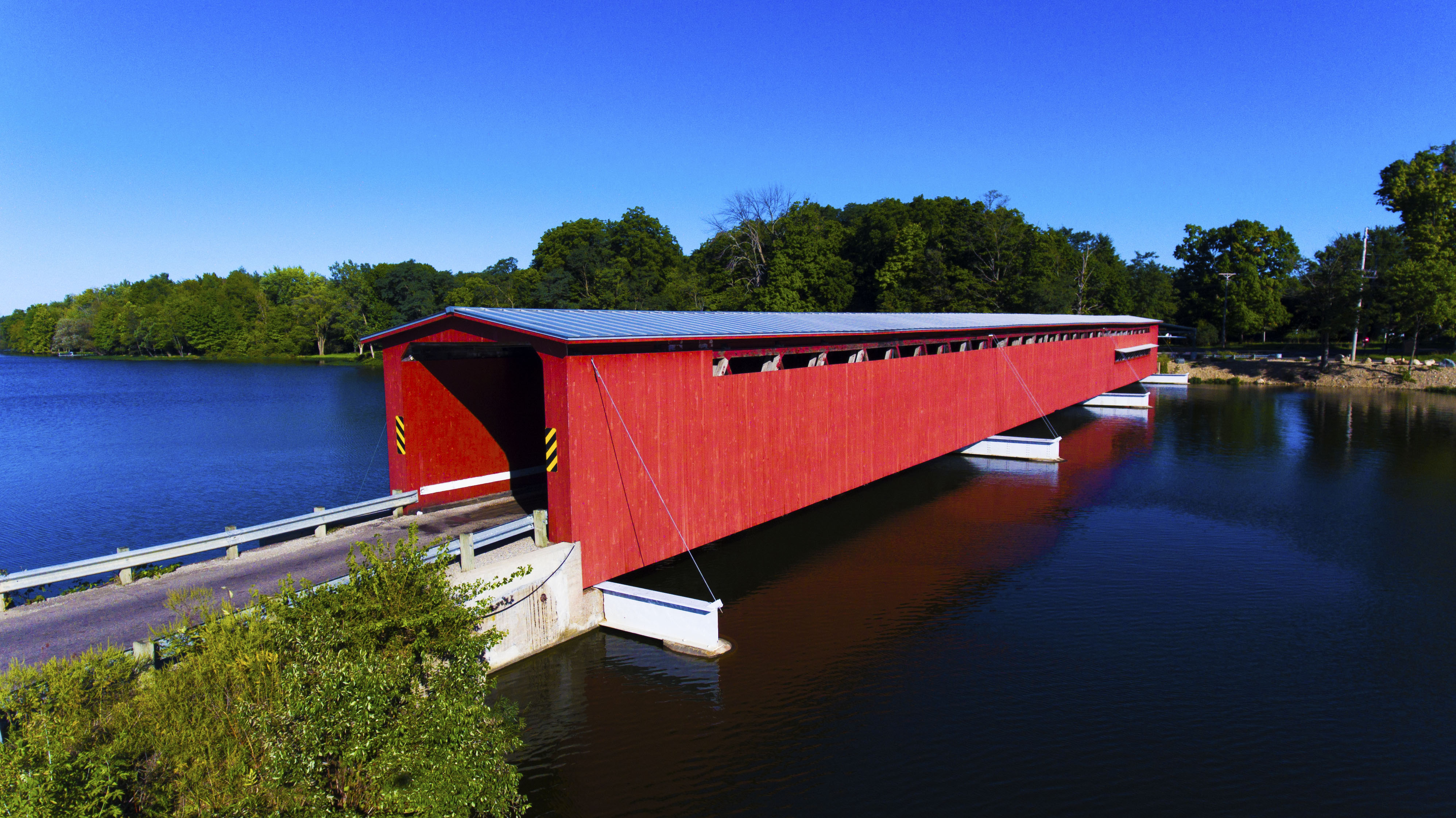 This photo was taken on Sept 13, 2016 from a drone. The photographer was a FAA licensed under 14 CFR 107. The photograph is ok to use for Commerical purpose